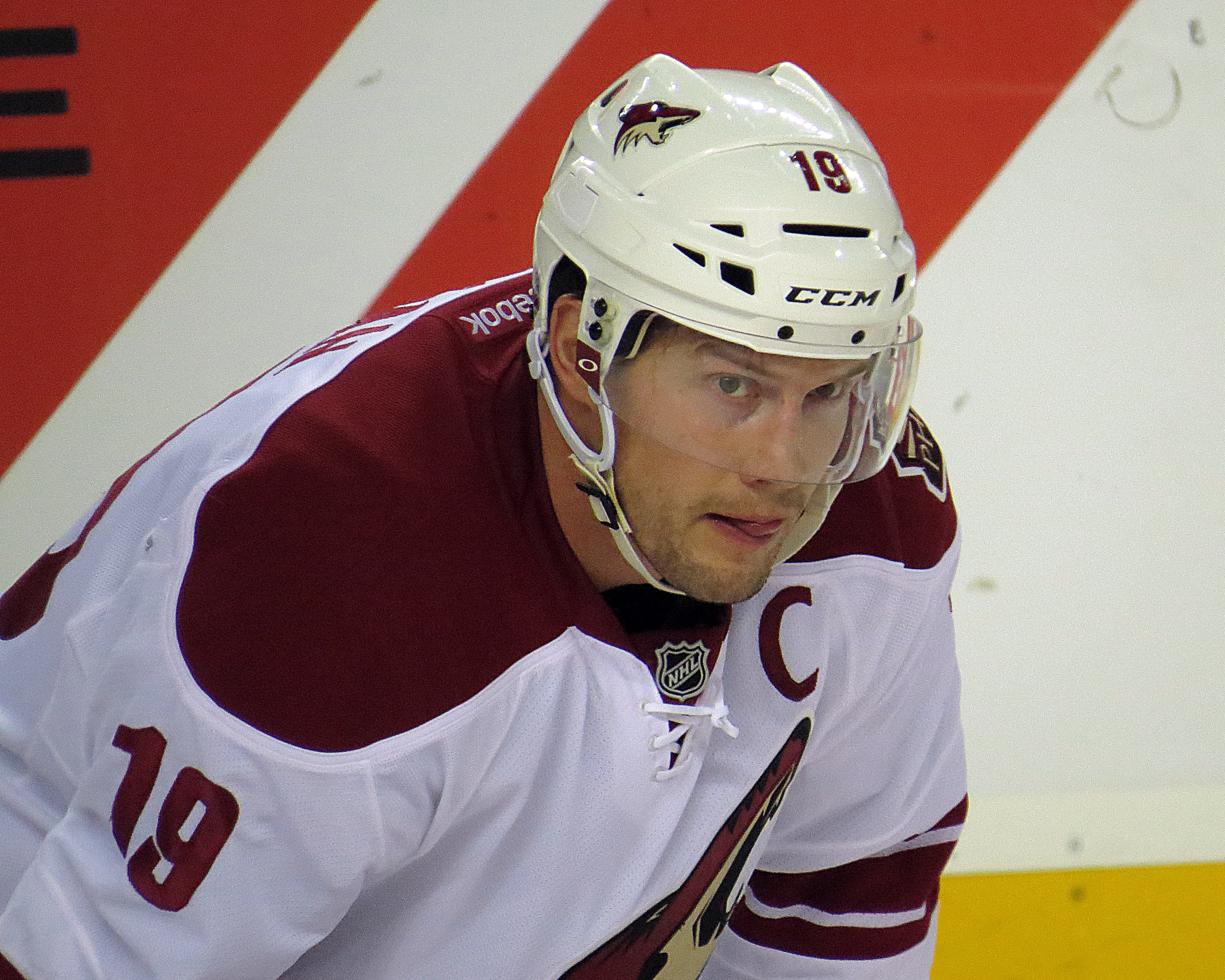 Shane Doan with the Phoenix Coyotes during the 2013–14 season.